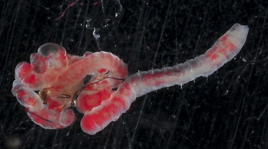 Heteromastus filiformis. Mouth of Rhode River, Anne Arundel County, MD - 06/09/14. Photo by Dean Janiak, Smithsonian Environmental Research Center.